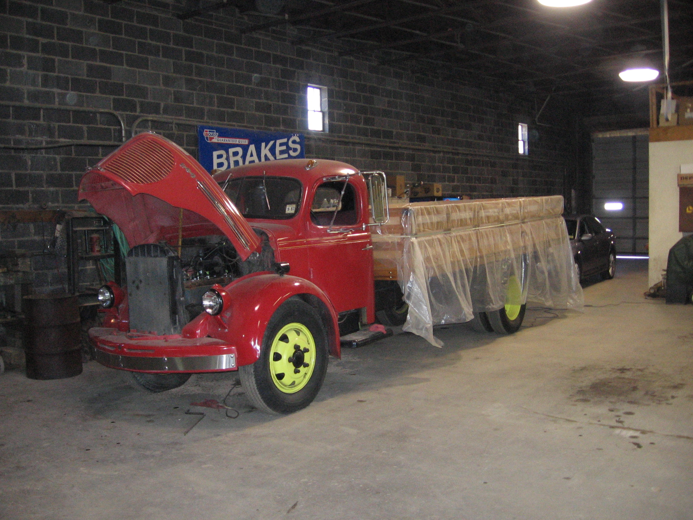 Image of 1946(?) REO Speed-Wagon taken in South Hill, VA. on Feb. 5 2007.